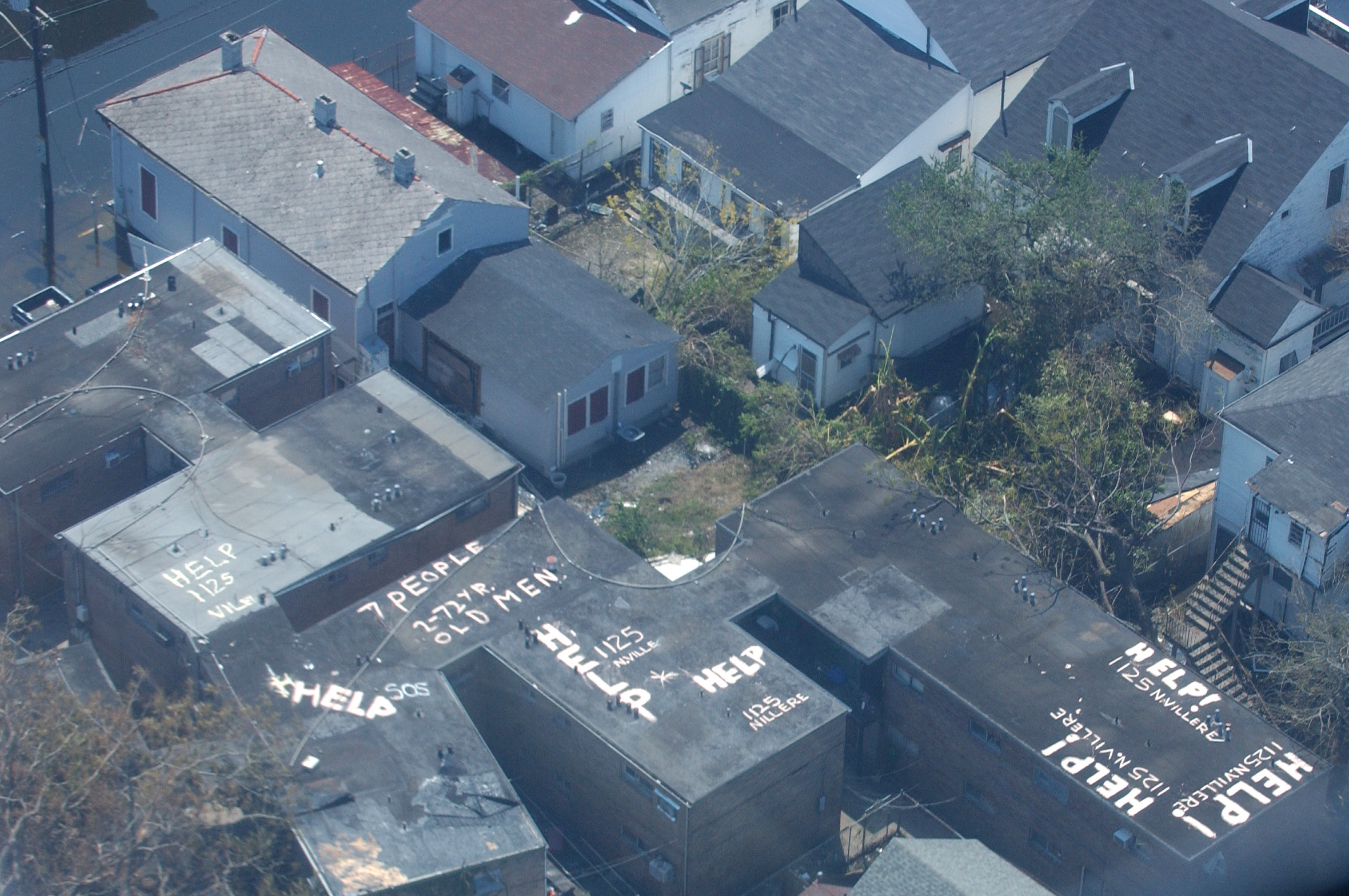 New Orleans, LA, September 4, 2005 -- Messages on rooftops say "HELP" and tell the occupants in areas impacted by Hurricane Katrina. New Orleans is being evacuated as a result of levee breaks during Hurricane Katrina. Jocelyn Augustino/FEMA